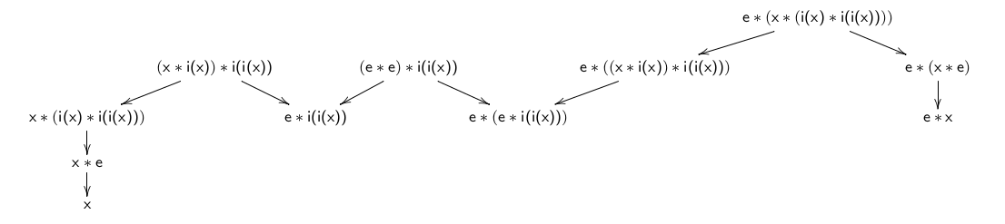 Scheme of proof of x = e* x in the weak axiomatization of groups